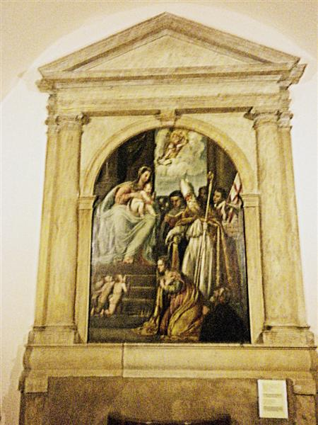 Stefano dall'Arzare, pala nella chiesa di San Francesco Grande a Padova